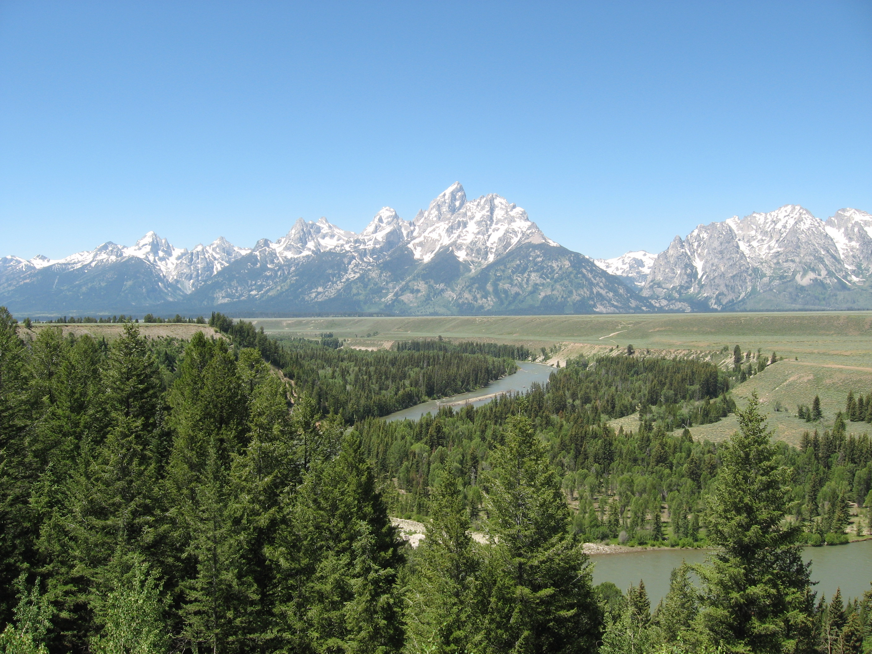 View of Teton Range and Snake River.